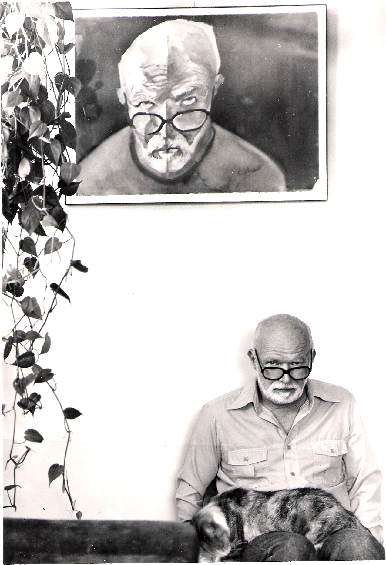 American painter Keith Crown with self-portrait by Katie Crown.